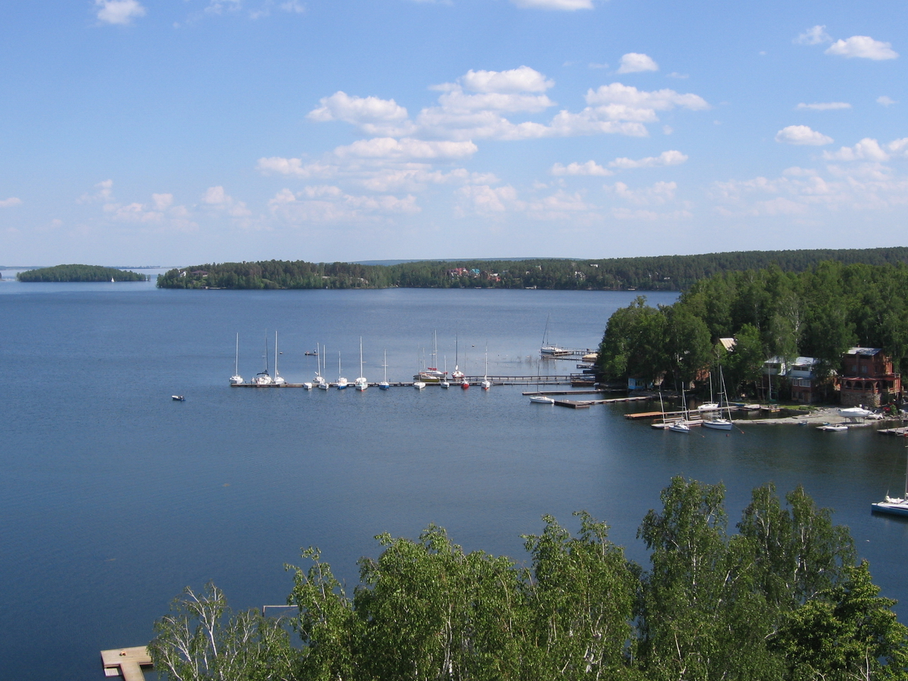 Bay Uvildy.